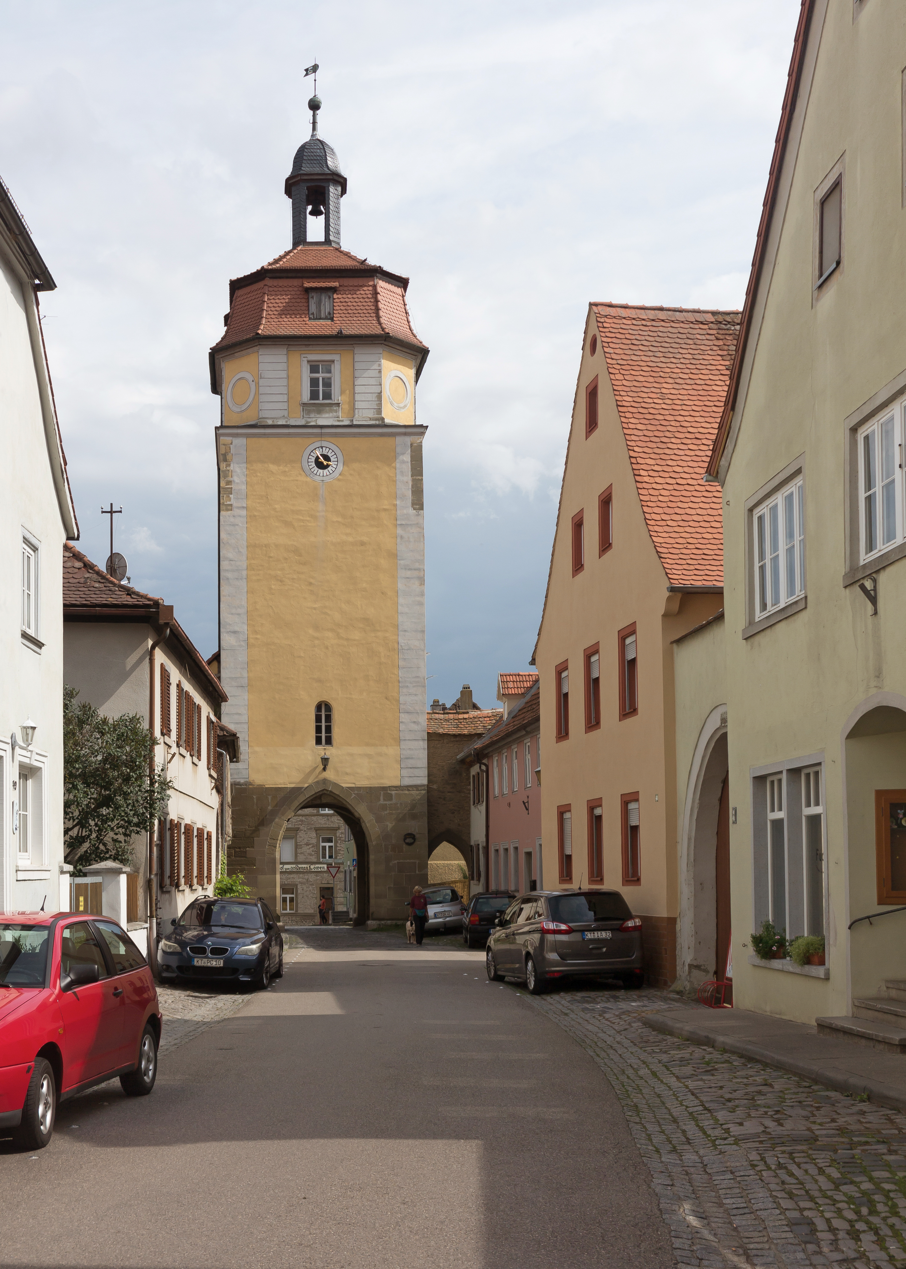 Mainbernheim, towngate: das OberestorThis is a photograph of an architectural monument.